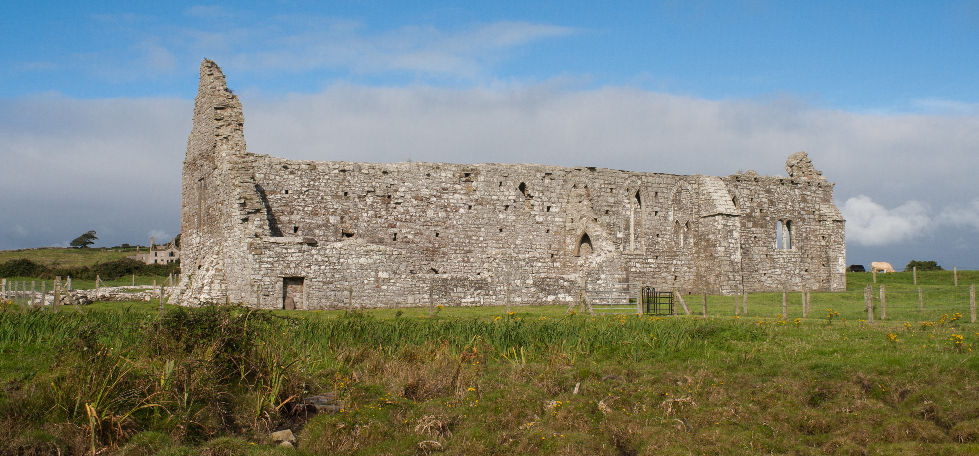 South view of Rathfran Priory.